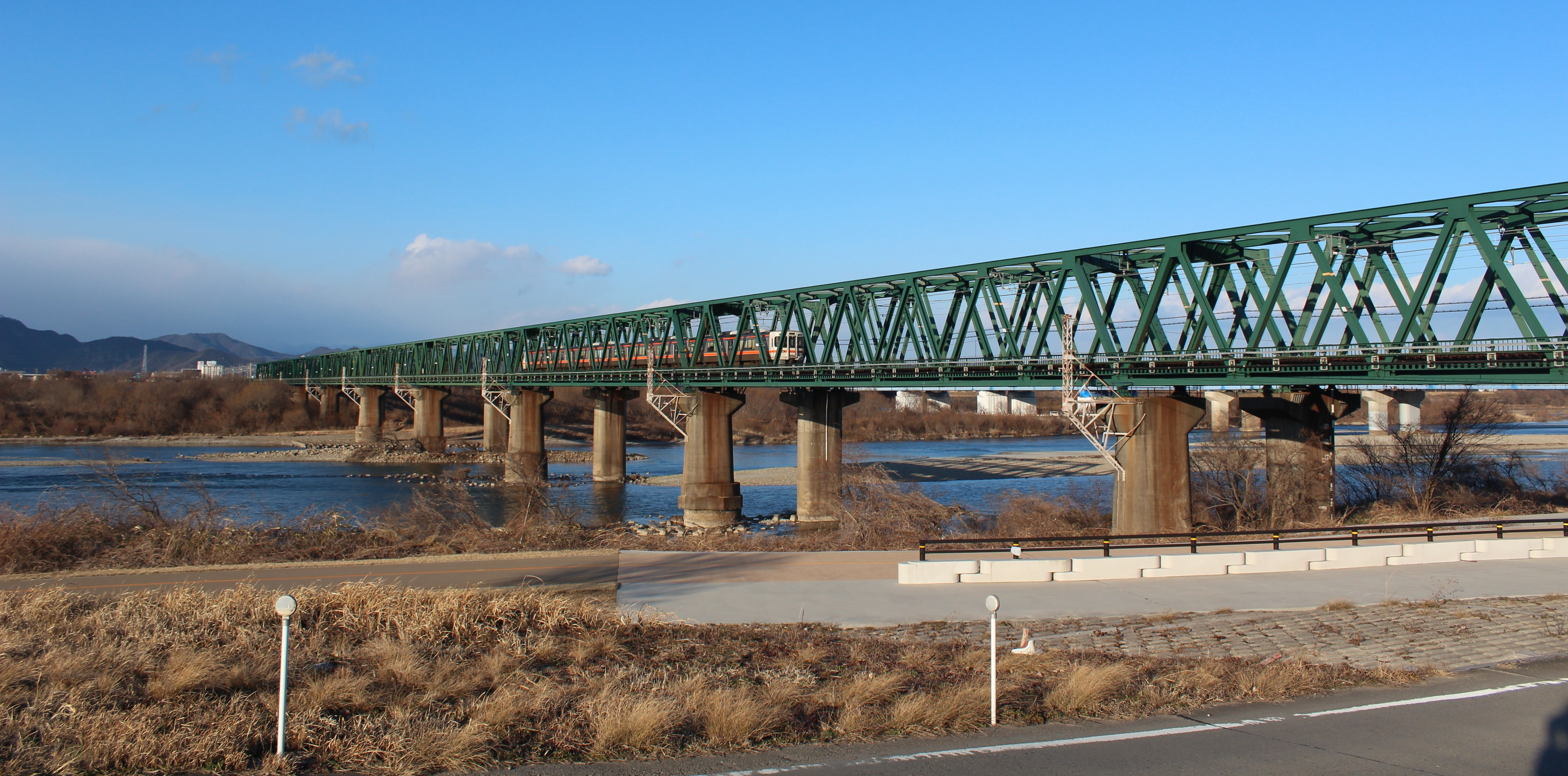 Kisogawa Kyoryo of Tōkaidō Main Line on Kiso River.